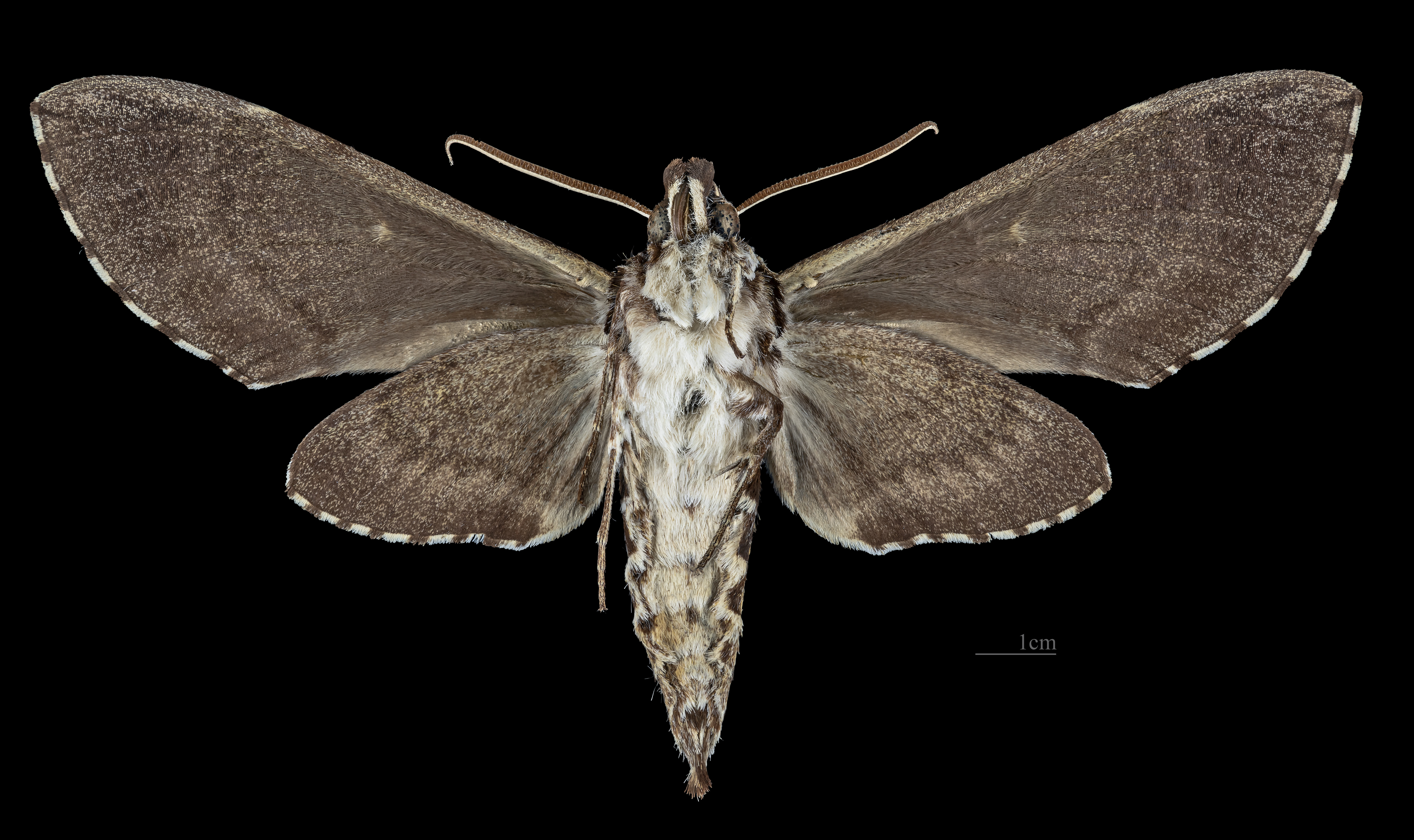 Manduca dilucida - △ Ventral side Collection of the Mathematician Laurent Schwartz